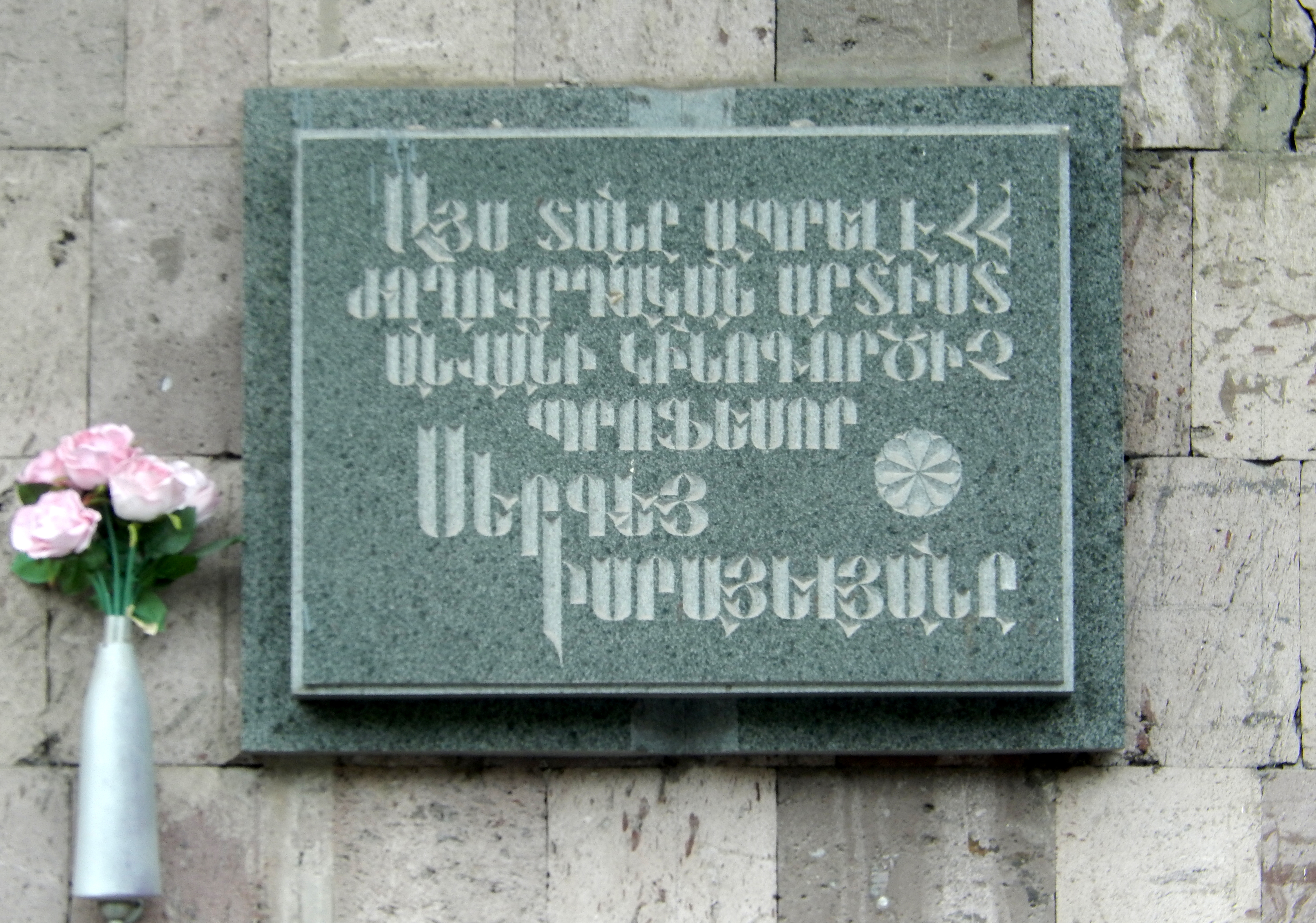 Սերգեյ Իսրայելյանի հուշատախտակը Երևանում